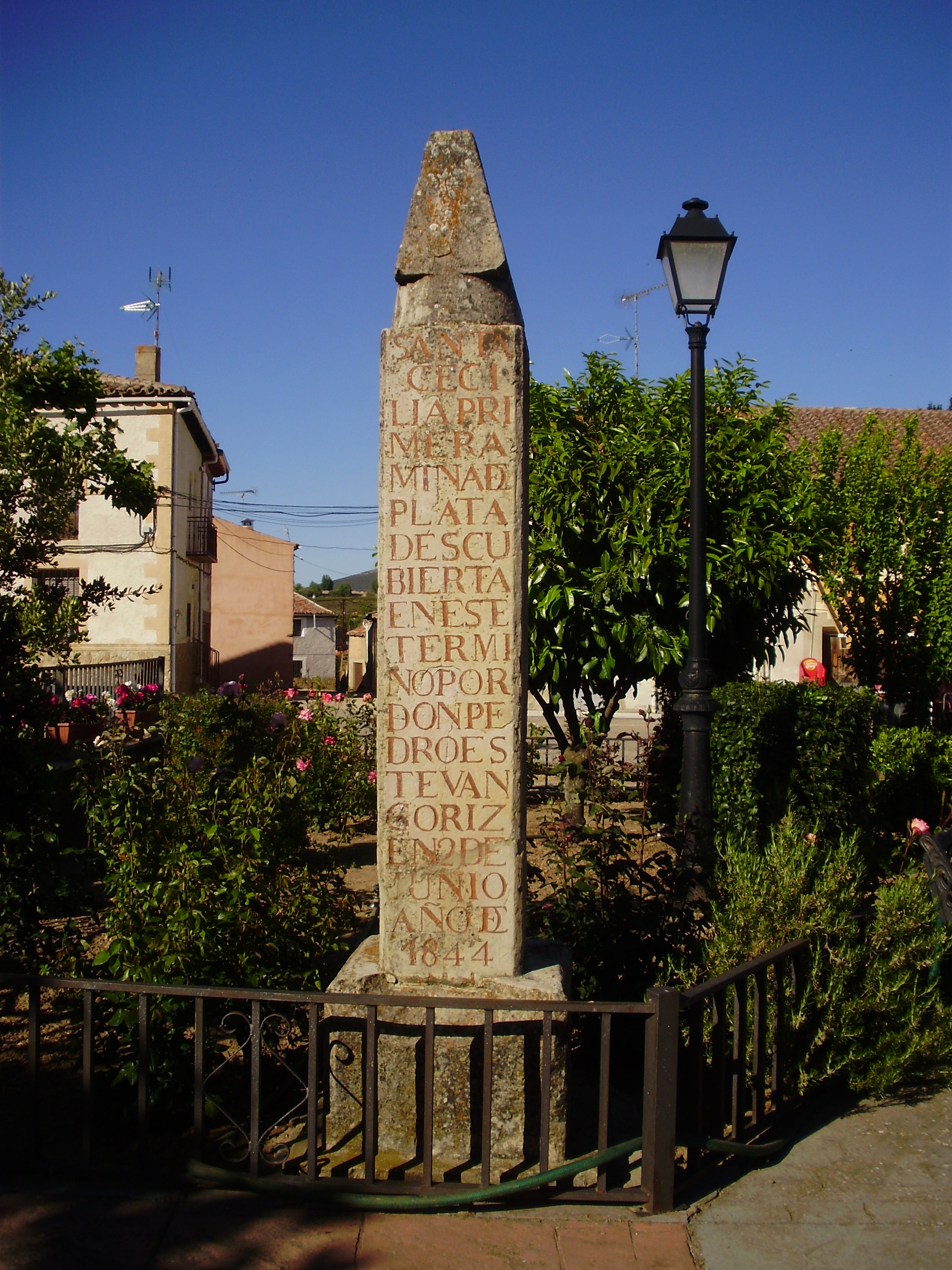 Obelisk in Hiendelaencina, Guadalajara, Castile-La Mancha, Spain.